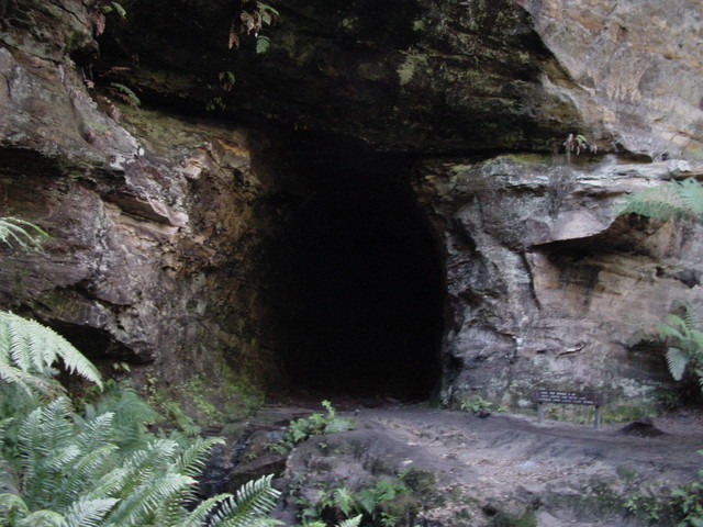 Northern entrance to Glowworm Tunnel, Wollemi NP, Blue Mountains, NSW, Australia